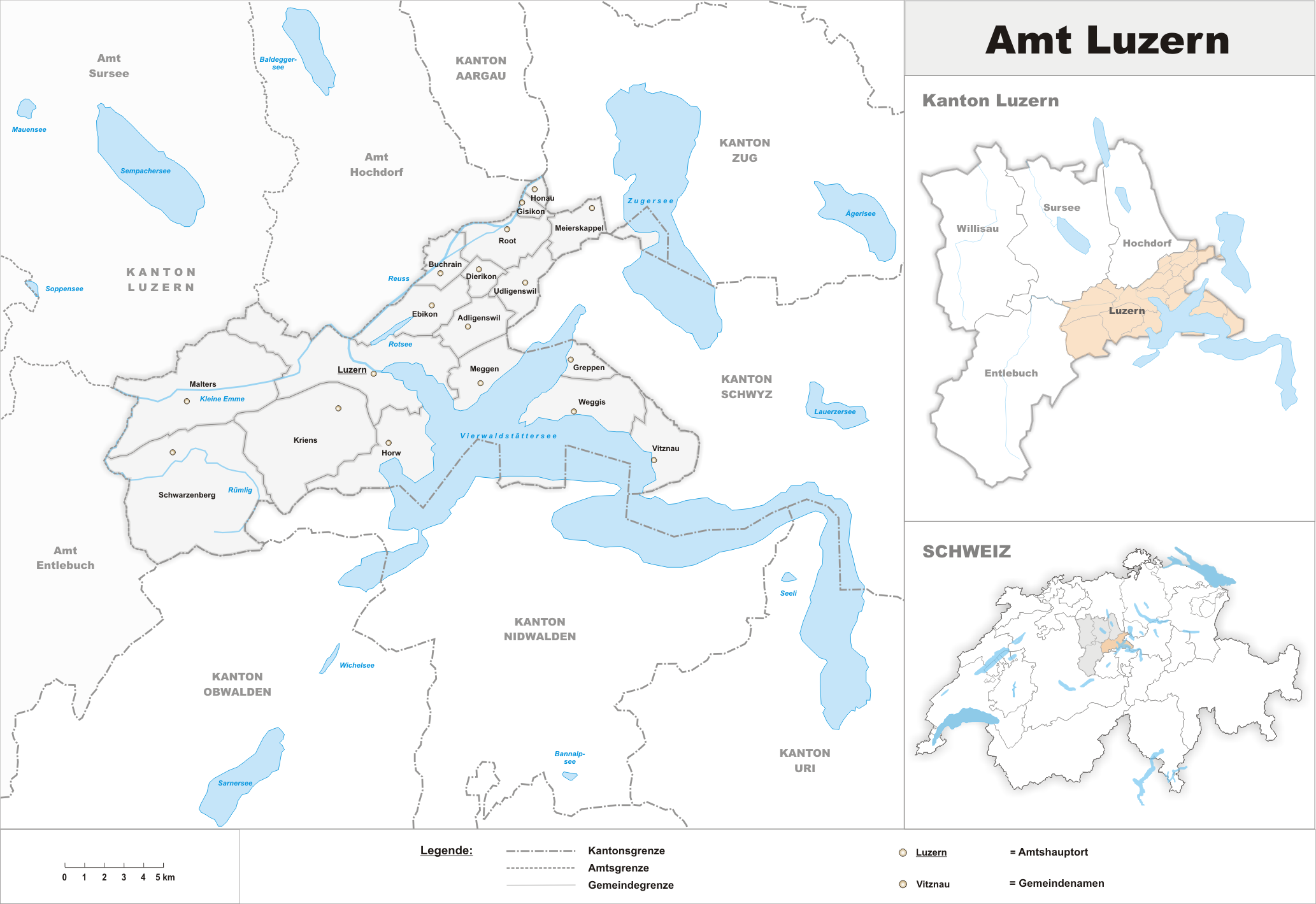 Municipalities in the district of Luzern